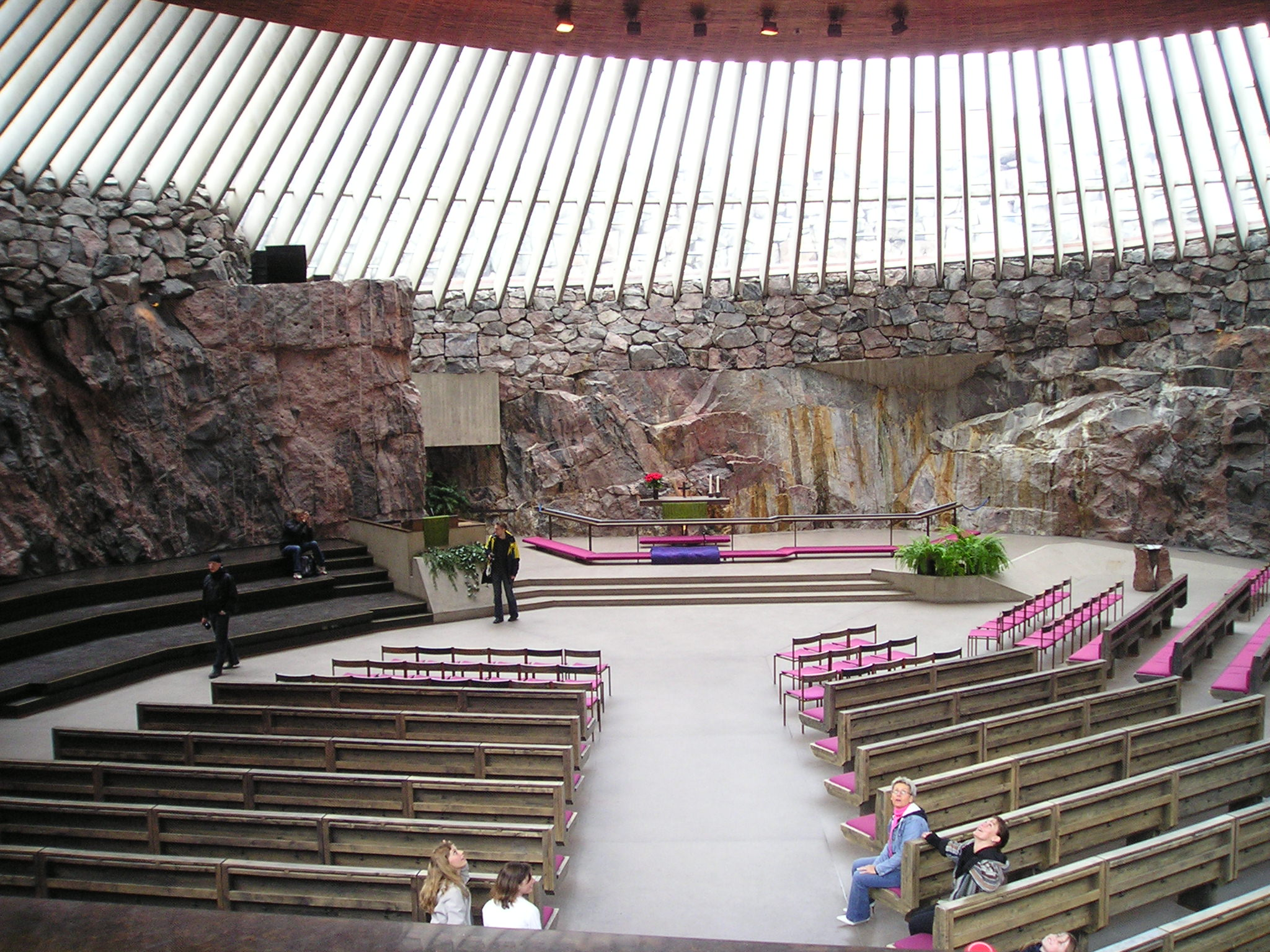 Interior of Temppeliaukio Church, Helsinki, Finland